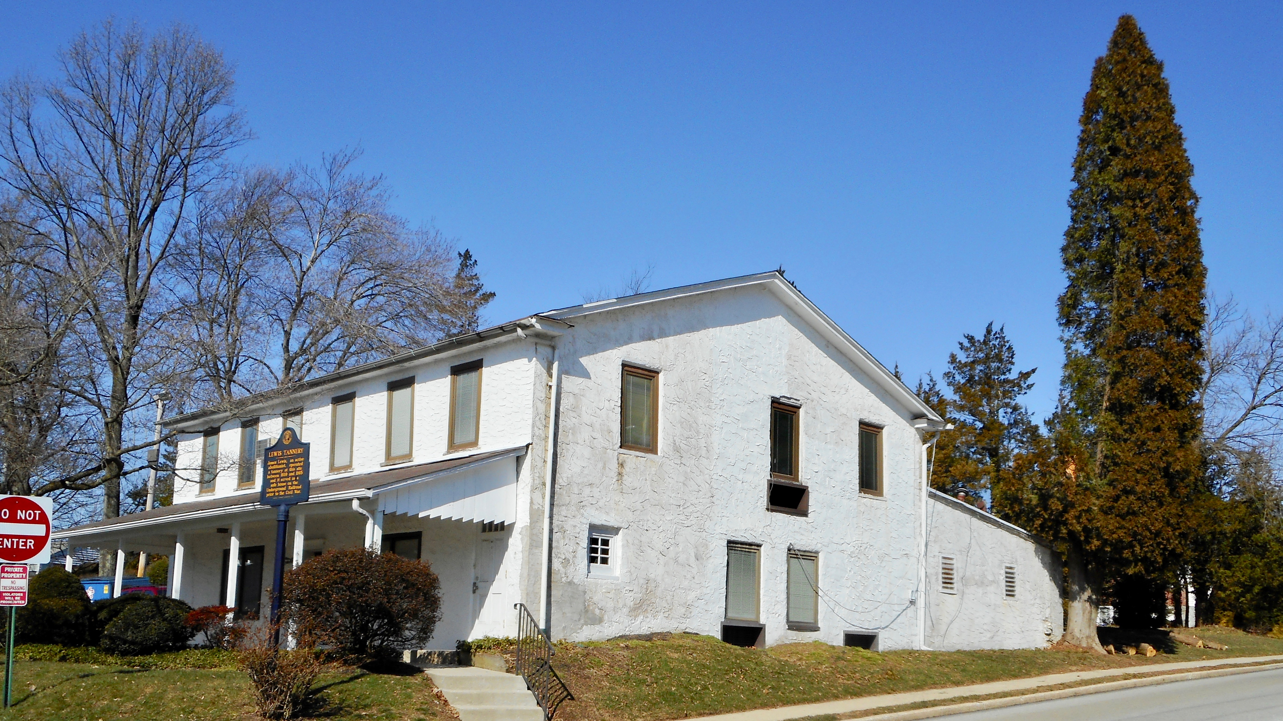 Lewis Tannery about 50 North Malin Road, north of PA 3, Marple Township, Delaware County, Pennsylvania. A township historical marker (in the same basic format as the famous PA state markers) says that this was operated as a tannery 1839-1865 by abolitionist James Lewis and was used in the underground railroad.